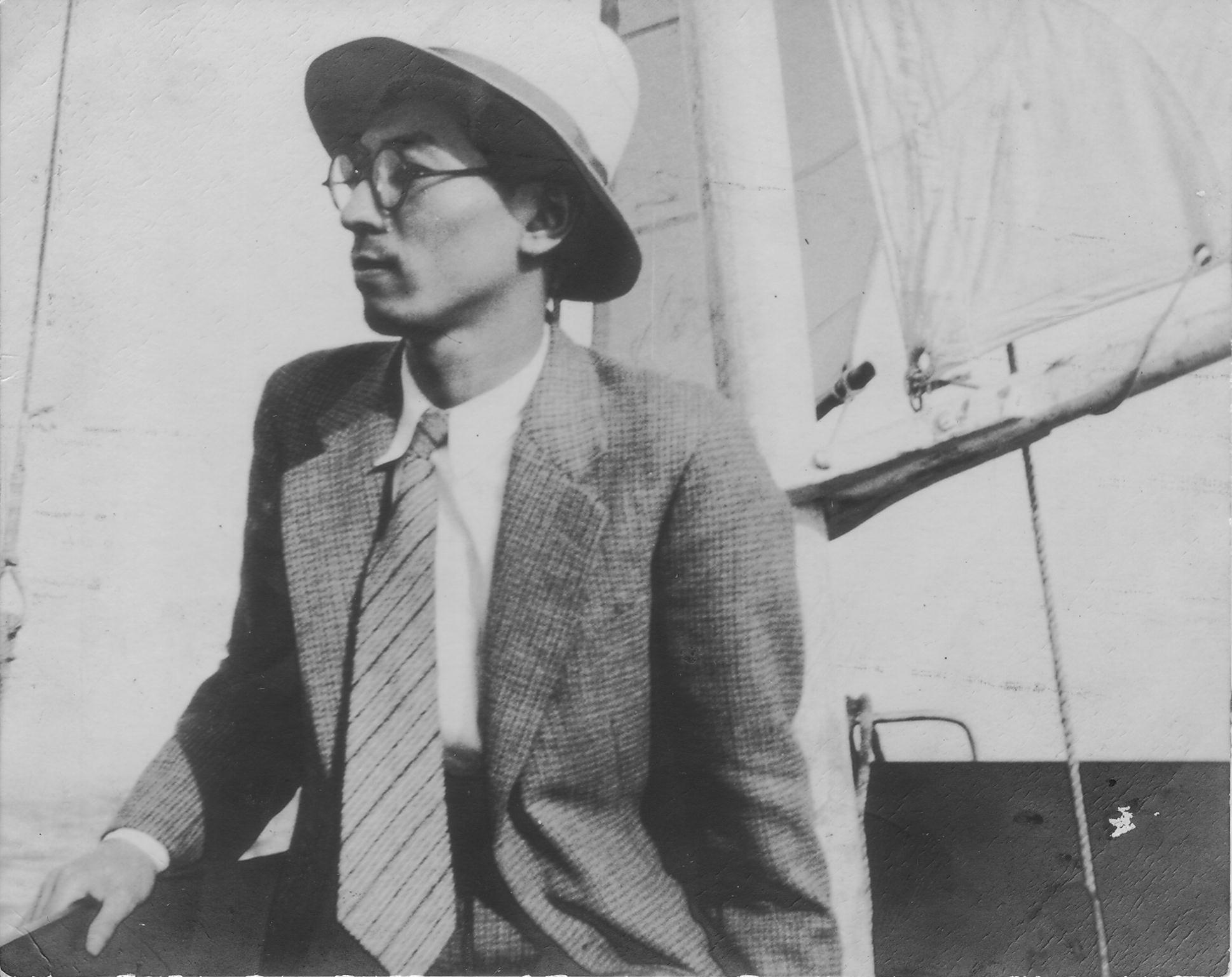 Shoichi Tateno (1908-1995) at a yacht voyage, 1937. He had hiking around Lake Biwa with the Doyobi members.